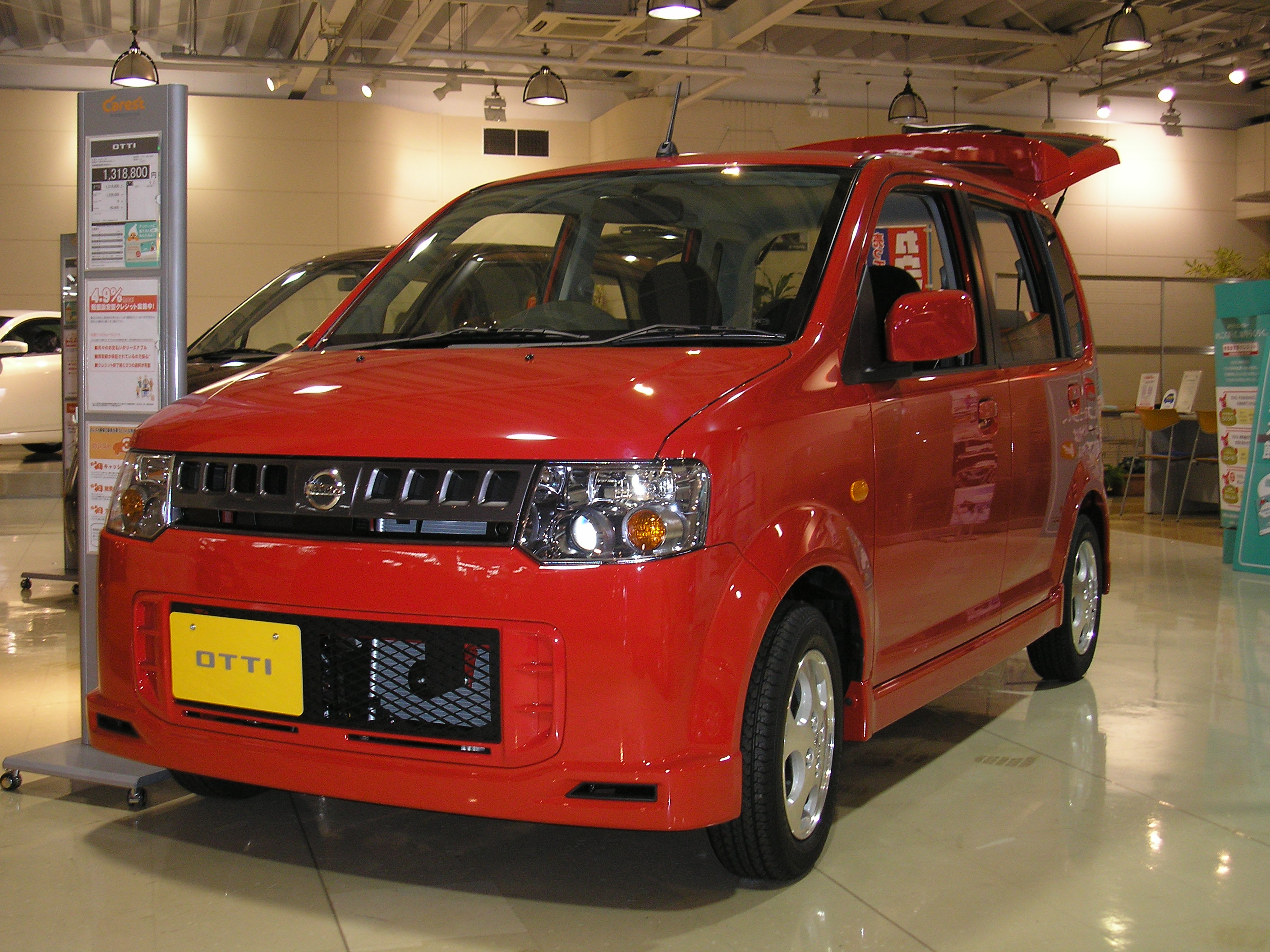 2009 Nissan Otti, photographed at Nissan Carest in Chiba, Japan